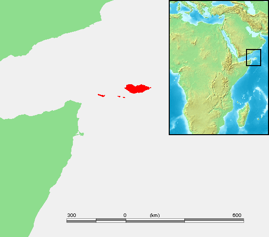 Location of Socotra Archipelago, Indian Ocean, Yemen.